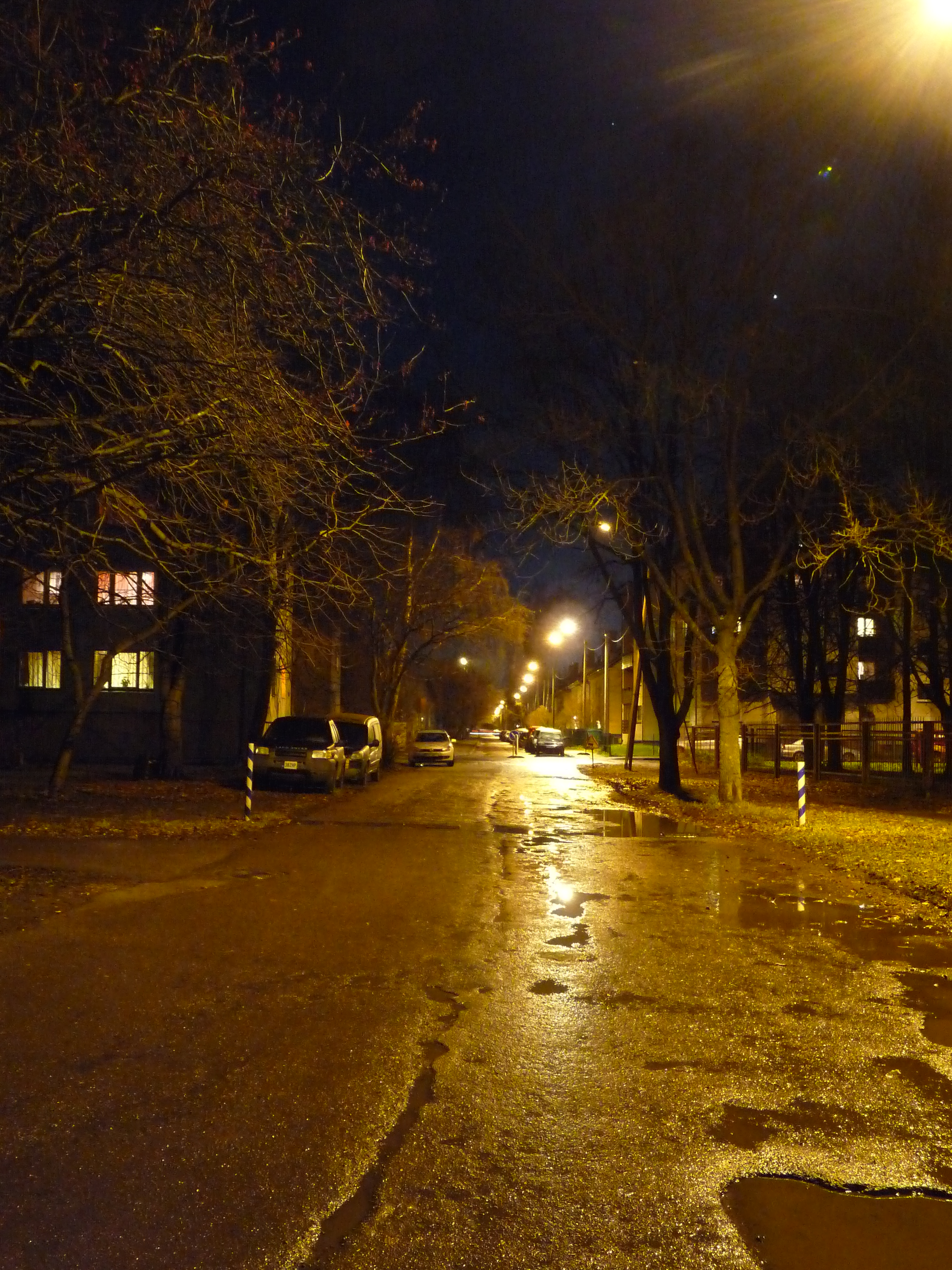 Nisu street in Tallinn, Estonia